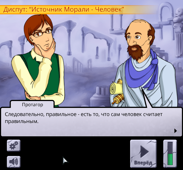 Screenshot from Socrates Jones